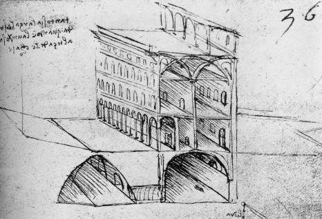 Project of ideal city